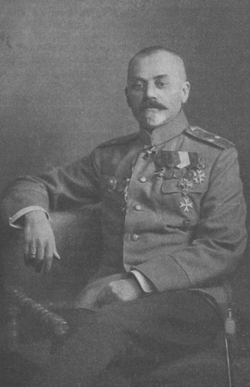 Sivers, Aleksandr Mikhaylovich